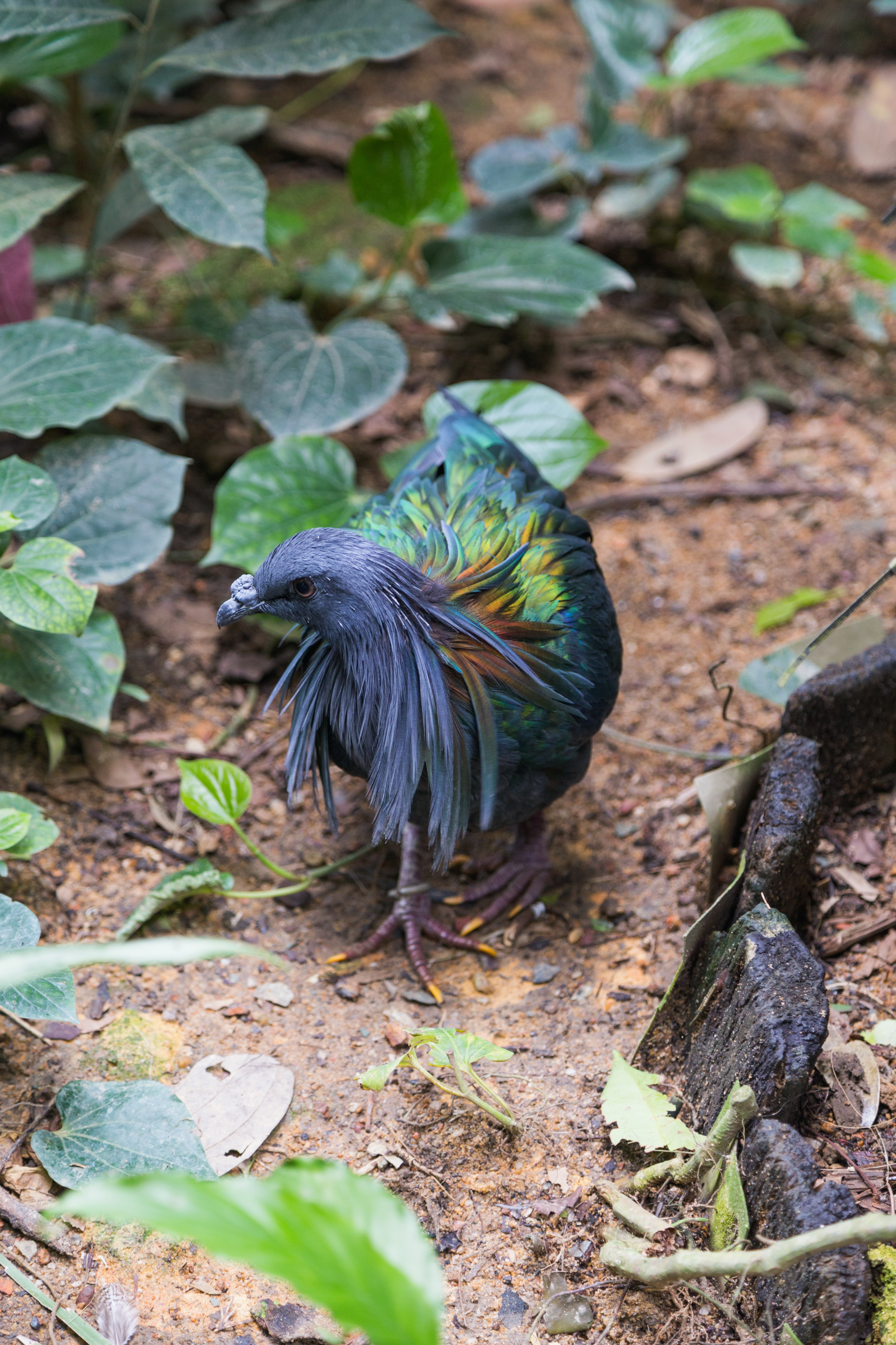 Nicobar pigeon (Caloenas nicobarica). Jurong Bird Park. Jurong, West Region, Singapore.